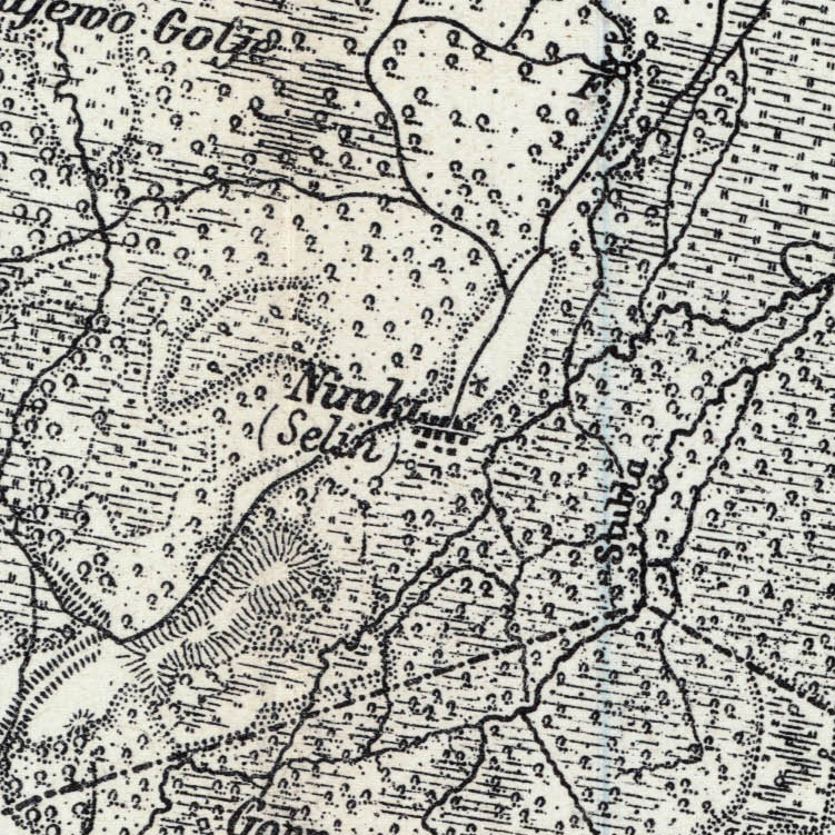 Zelen on the map "Karte des Westlichen Russlands", S 35, 1915. According to Digital Repository of Scientific Institutes the map is in the public domain.